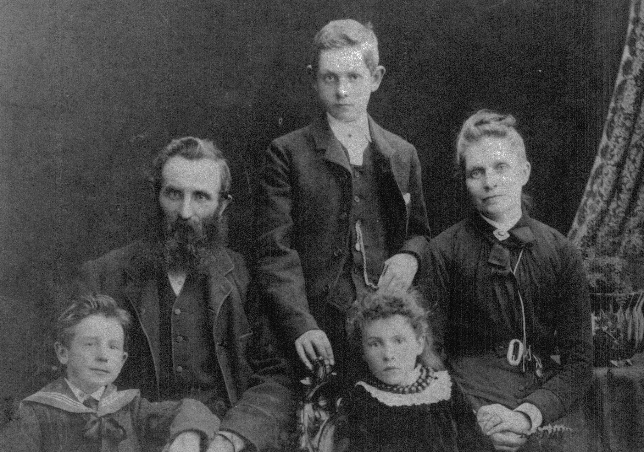 James Grant Montgomery, Janet Greig his wife, John Thomas Montgomery and Jeannie Montgomery